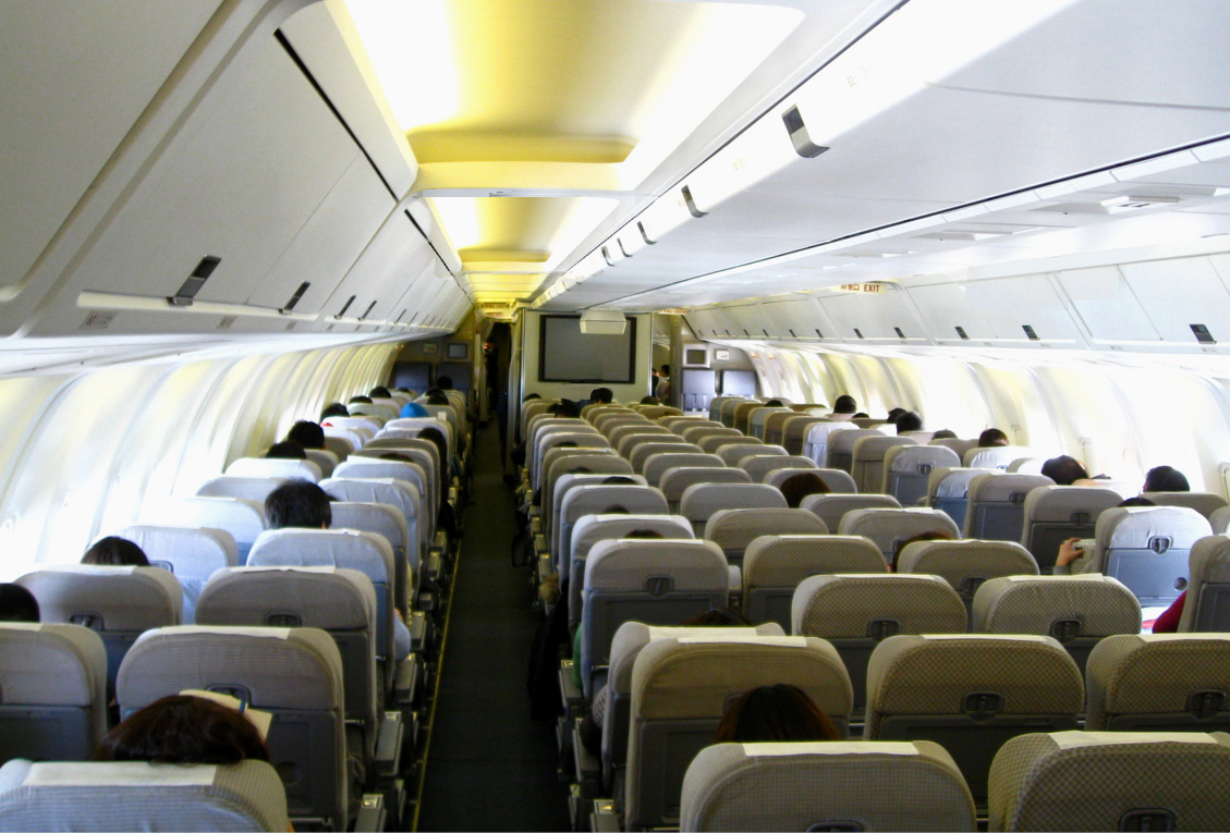 JAL 767